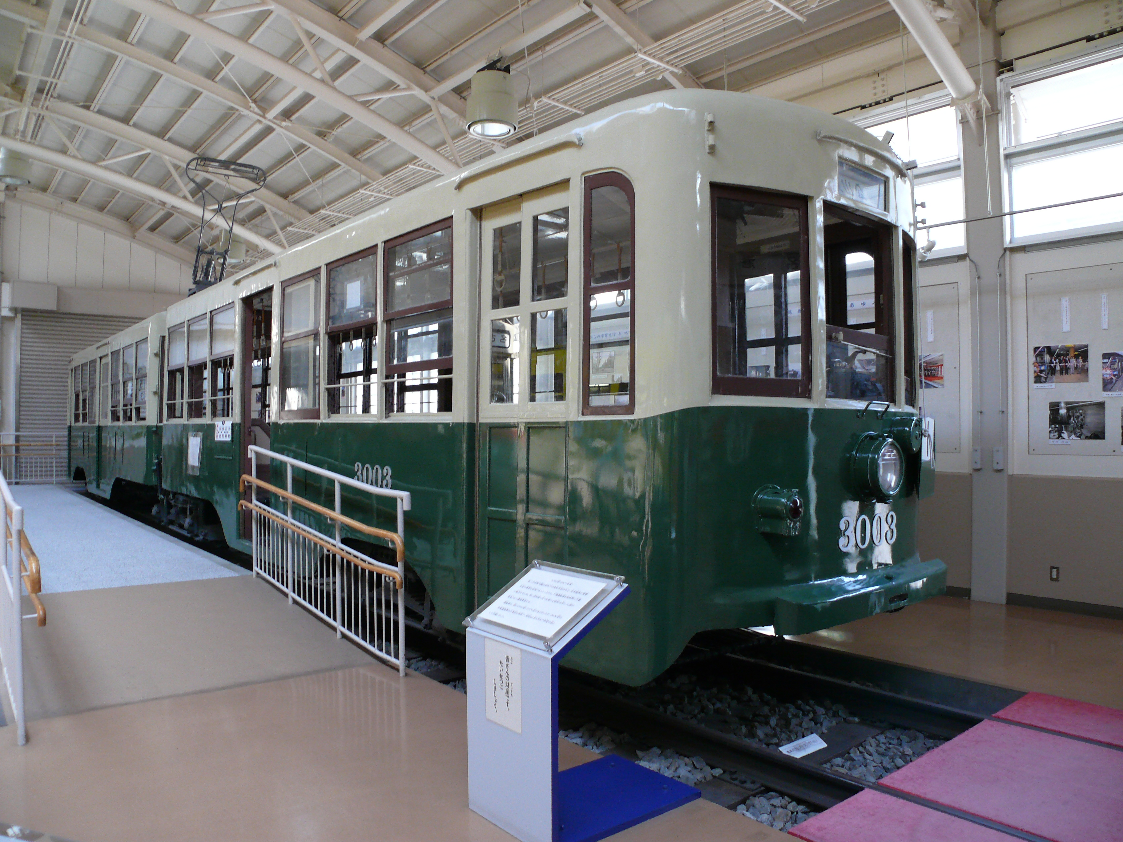 Nagoya City Tram & Subway Museum.